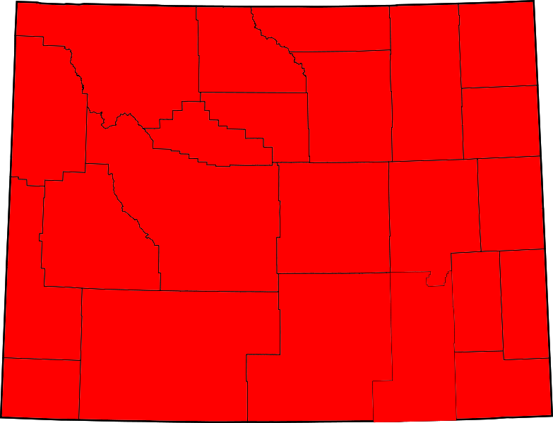 Results of the Wyoming senatorial special election, 2008 by county.